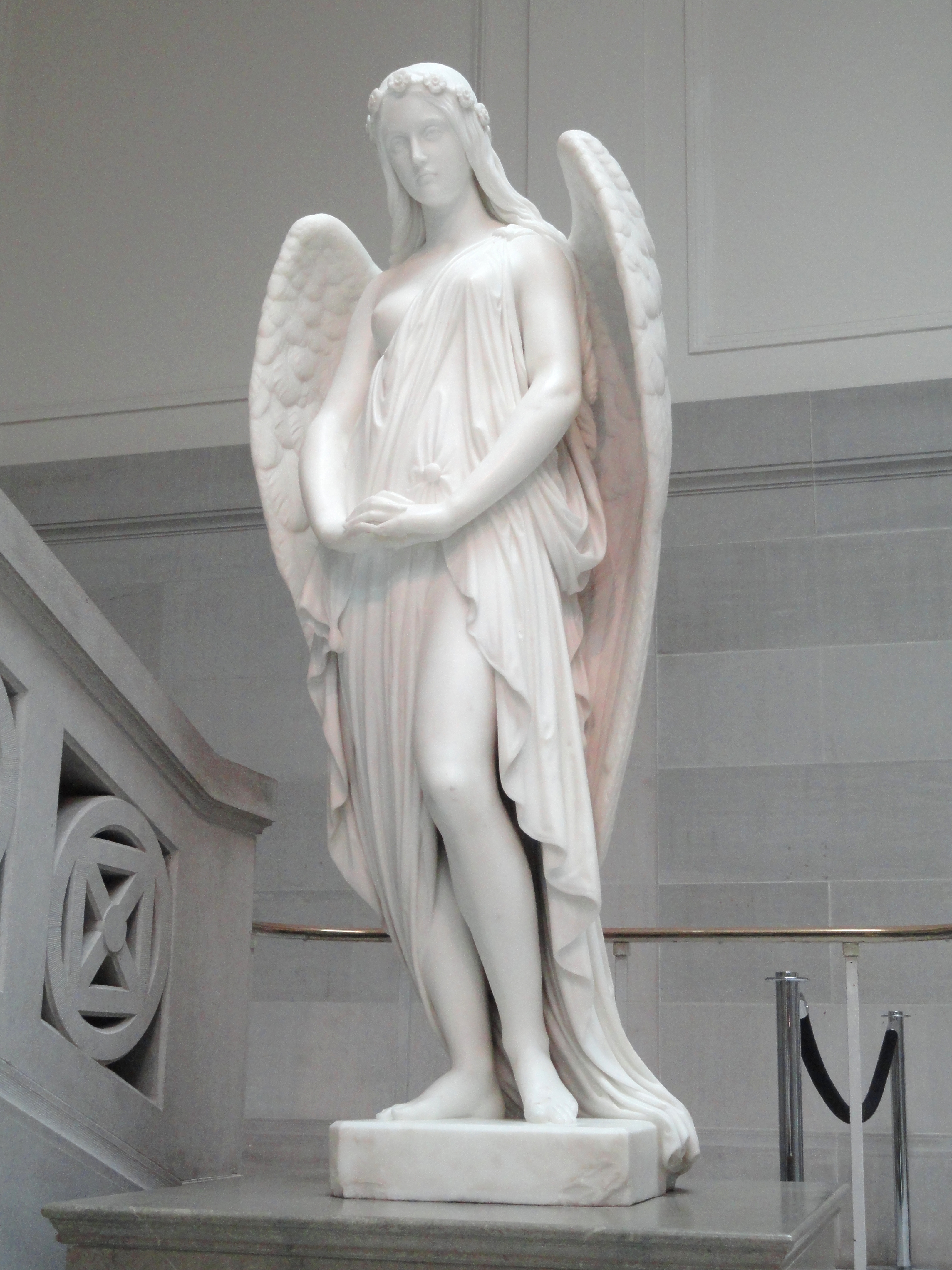 Sculpture exhibited in the Corcoran Gallery of Art, Washington, D.C., USA. There were no prohibitions against photography in the museum. This artwork is in the public domain because the artist died more than 70 years ago.